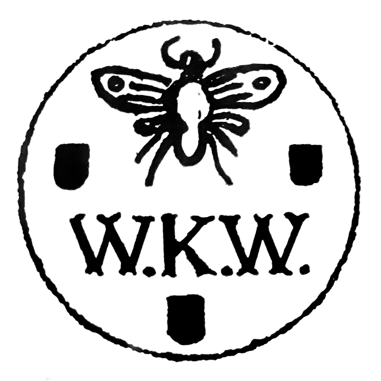 Wiener Kunstkeramische Werkstätte Logo alt